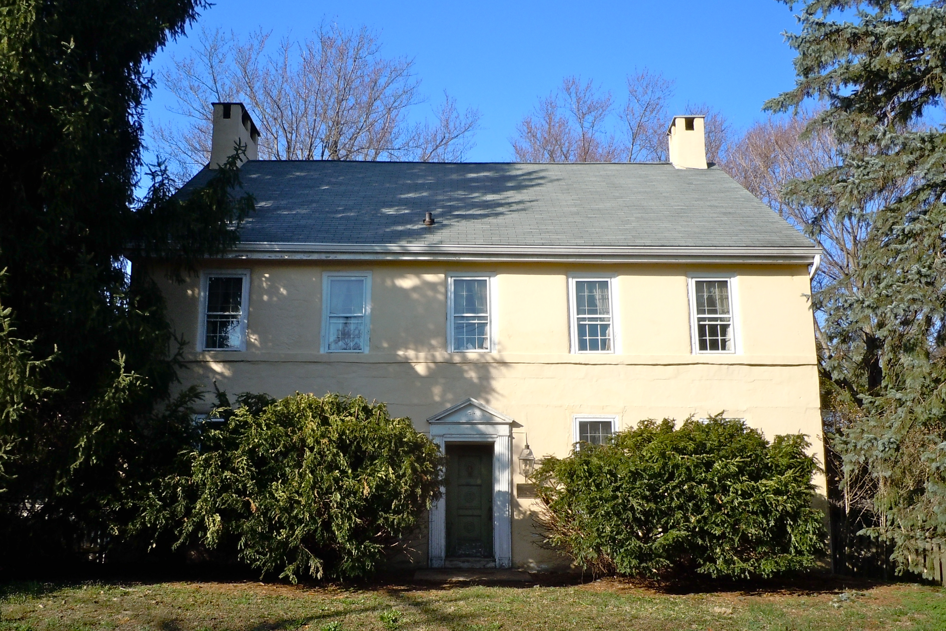 White Horse Tavern on the NRHP since September 18, 1985. On Strasburg Road near Coatesville, East Fallowfield Township, Chester County, Pennsylvania. Very old for PA, right next to Robt Wilson House, also on NRHP